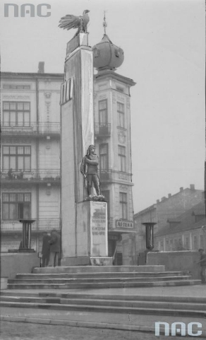 Zburzony w 1940